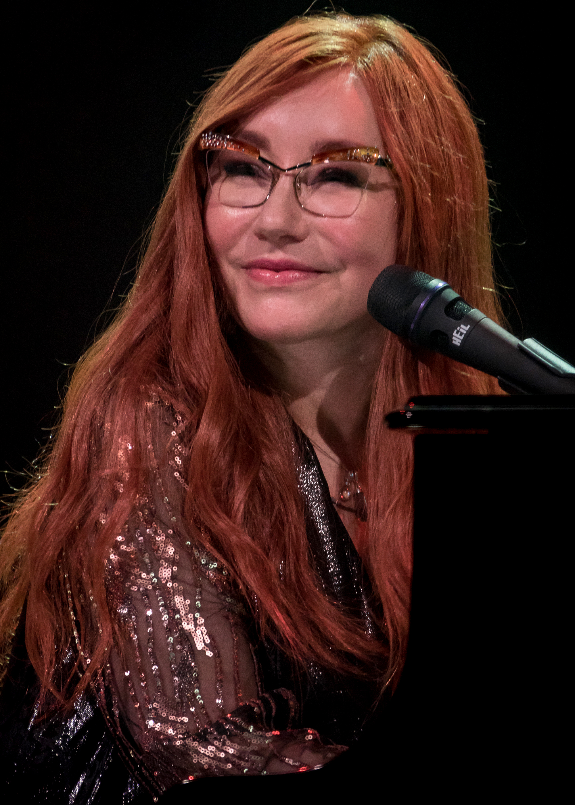 Tori Amos performing live at the Theatre at Ace Hotel in downtown Los Angeles, California, on Friday, December 1, 2017. This was the first of three sold out nights at this venue for Tori.